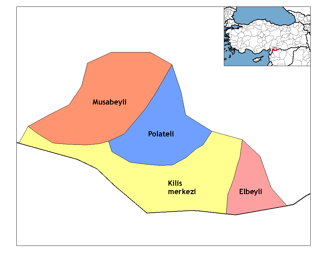 Map of the districts of Kilis province in Turkey. Created by Rarelibra 21:59, 1 December 2006 (UTC) for public domain use, using MapInfo Professional v8.5 and various mapping resources. Edited by One Homo Sapiens Corrected text where İ,Ş,ı,ğ,or ş occurs in name. Source: [statoids-com]. Increased font size.